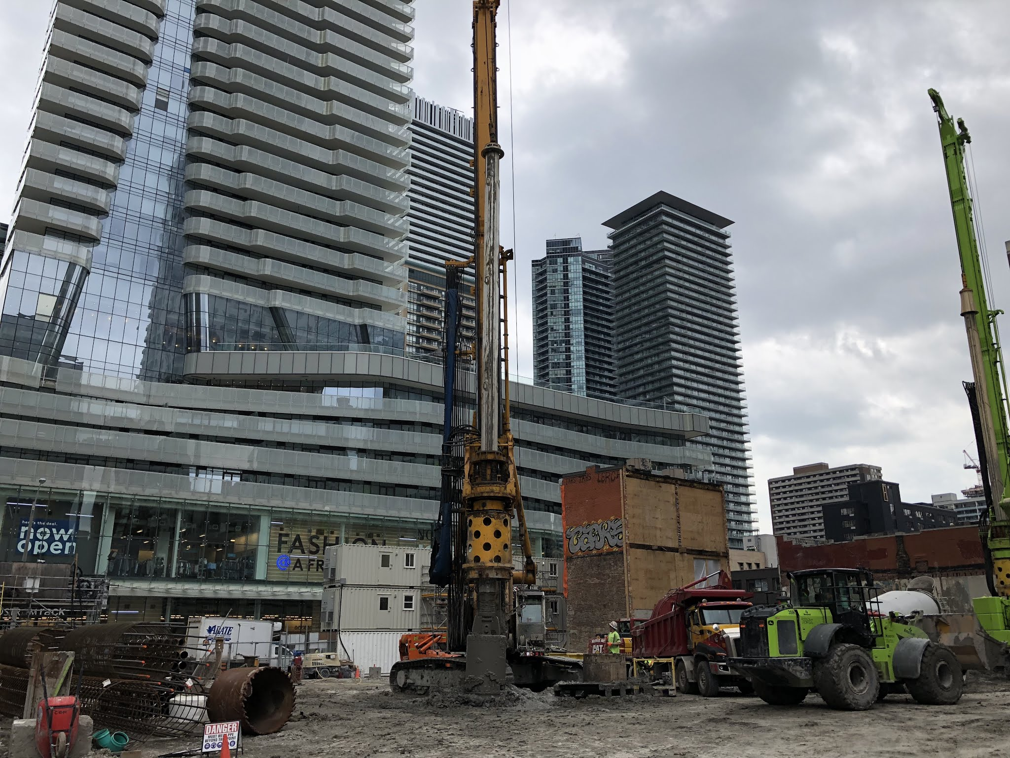 The One construction site in May 2018.